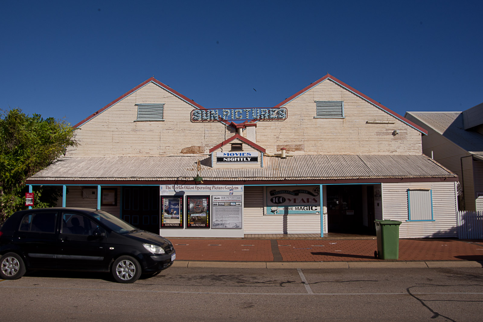 Sun Theatre Broome